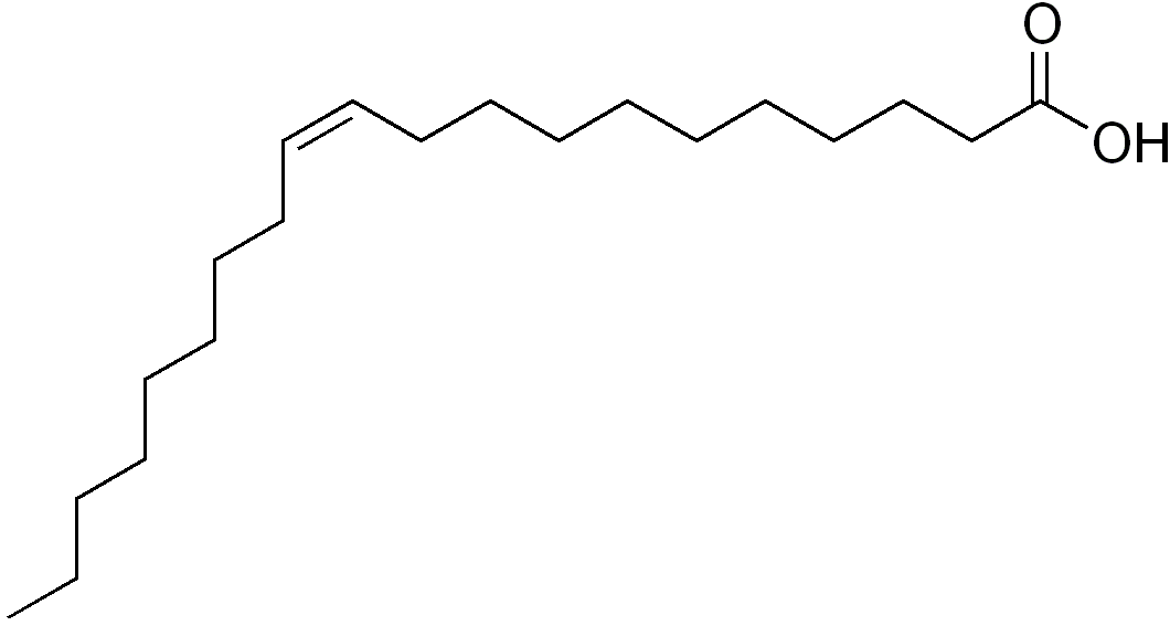 chemical structure of 11Z-eicosenoic acid